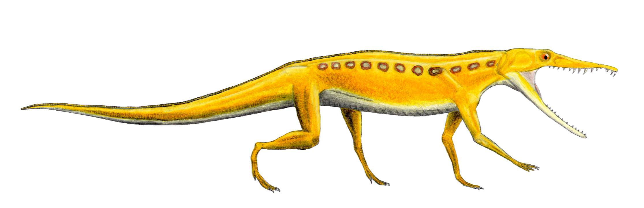 Life restoration of Chanaresuchus bonapartei.